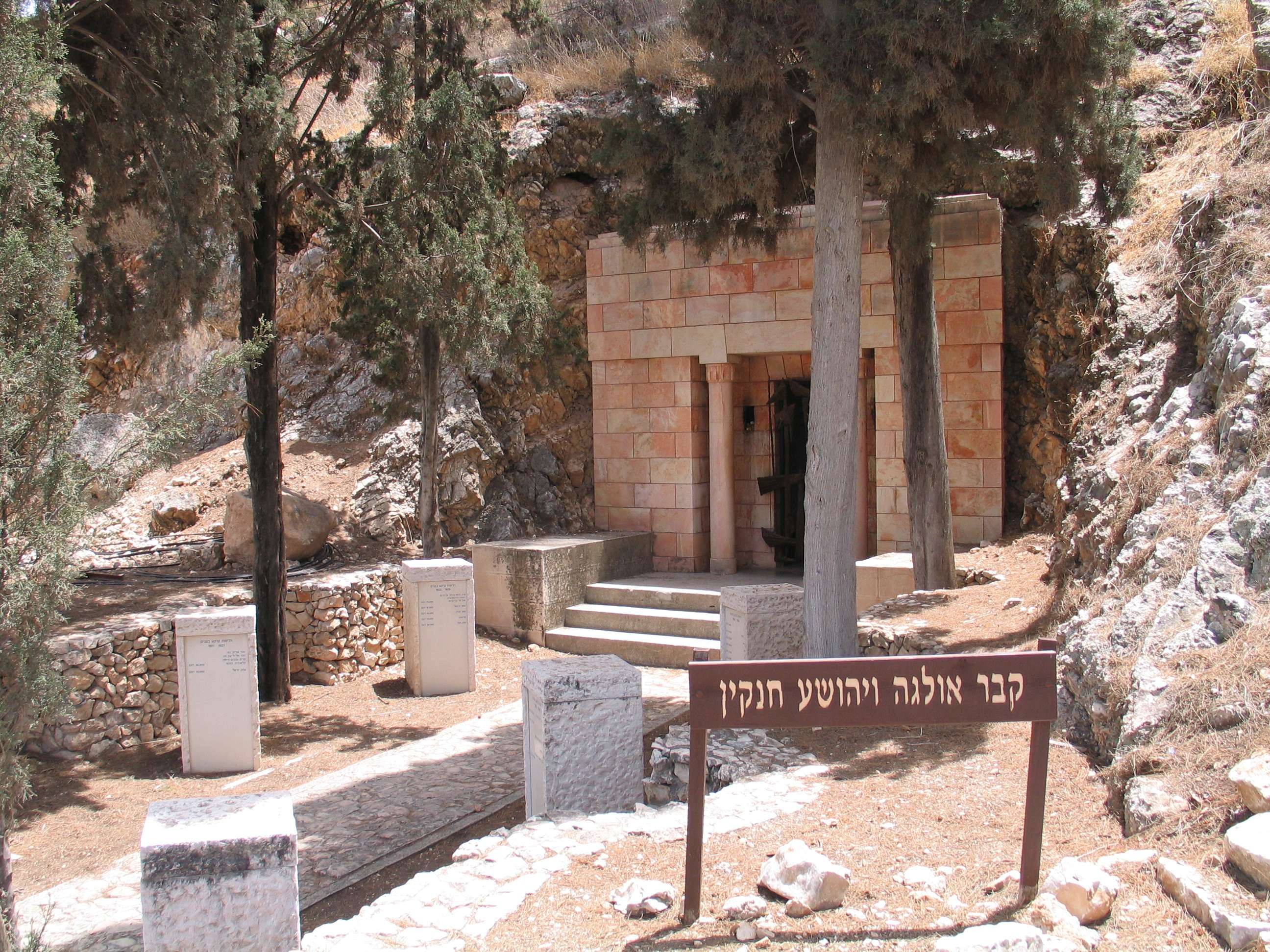 Yehoshua Hankin's house and tomb, Maayan Harod.